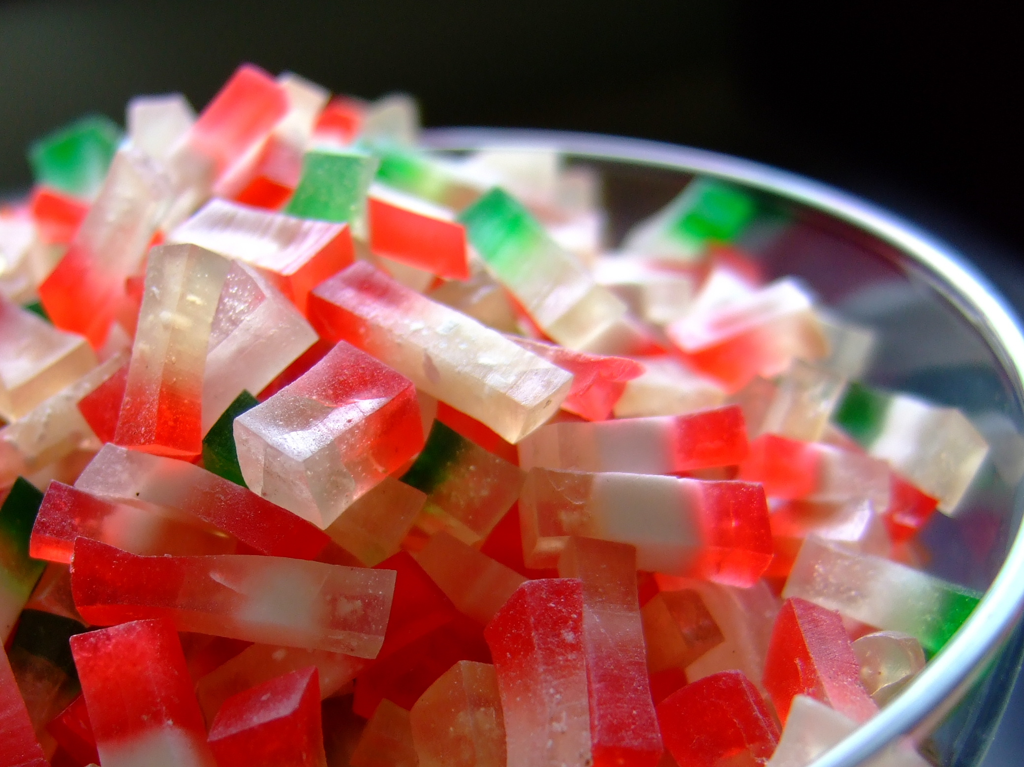 Tapioca sticks, uncooked